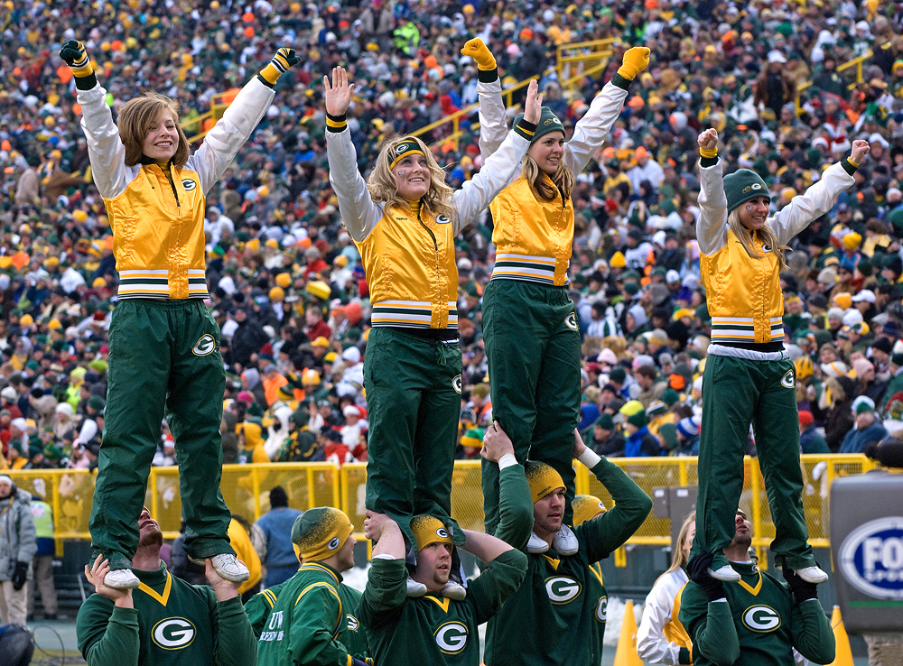 Seattle vs. Green Bay • December 27, 2009 at Lambeau Field in Green Bay, Wisconsin.